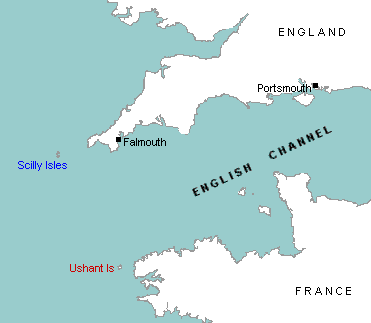 A map of the English Channel with the positions of Scilly and Ushant, and Falmouth where Shovell sent some ships as his fleet was heading for Portsmouth prior to the Scilly naval disaster of 1707.